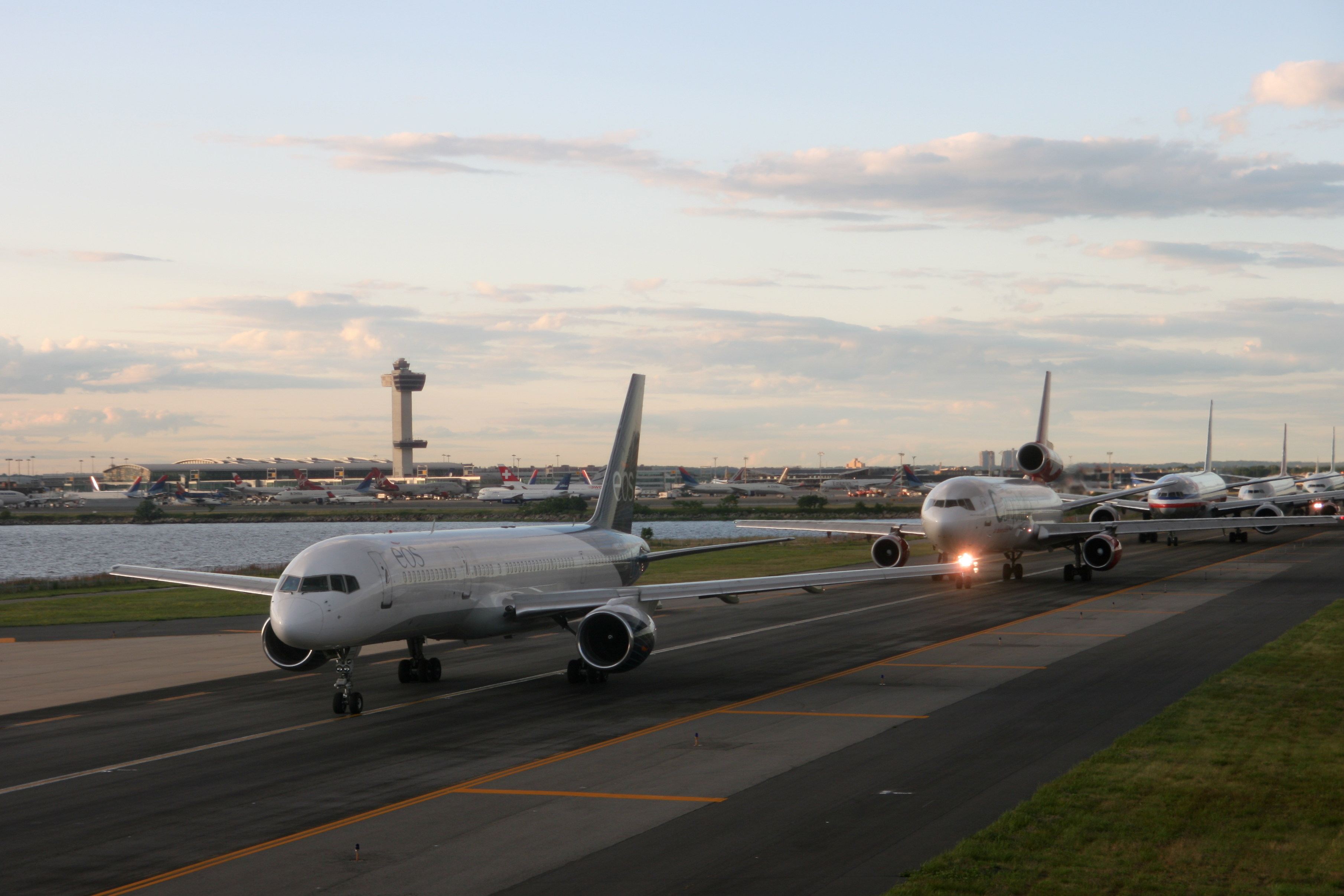 Plane queue at JFK Airport